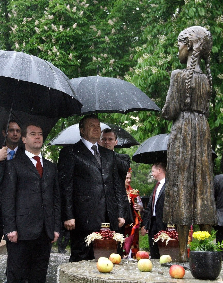 Dmitry Medvedev and Viktor Yanukovych honoured the memory of victims of the famine in Ukraine, placing candles at the foot on the monument to the victims of this tragedy.